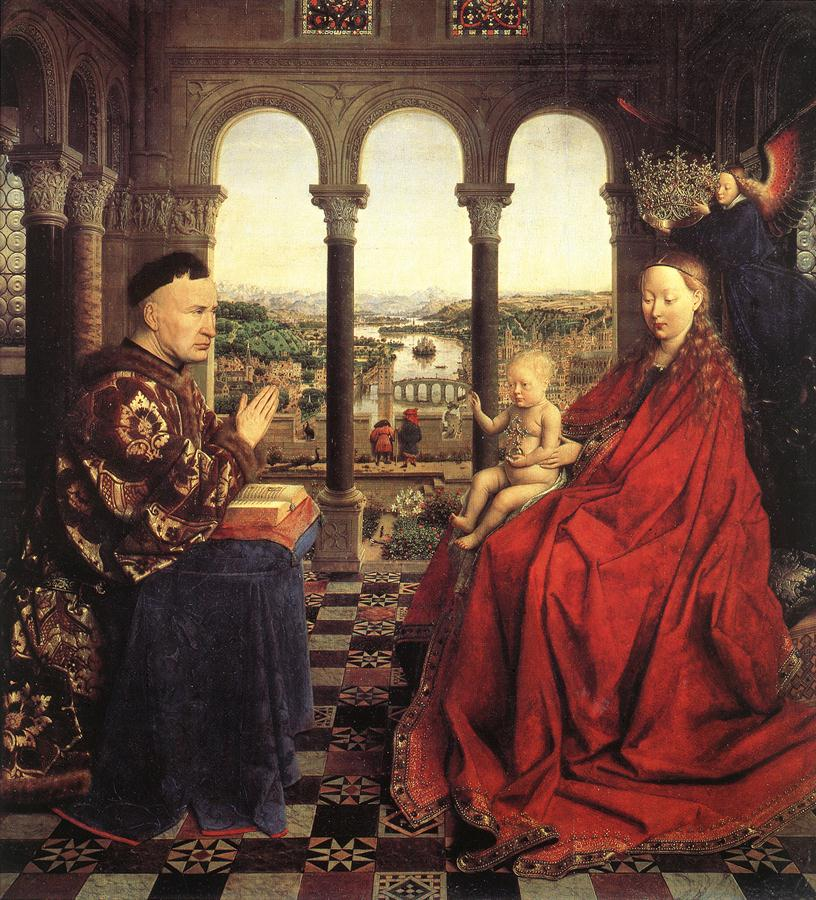 Jan van Eyck's art